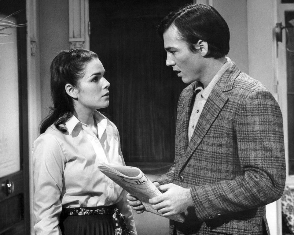 Photo of Karen Gorney (Tara Martin) and Richard Hatch (Phillip Brent) from the daytime drama All My Children.